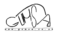 The Glasgow Uninversity Muslim Students Association logo for the years 2003-16